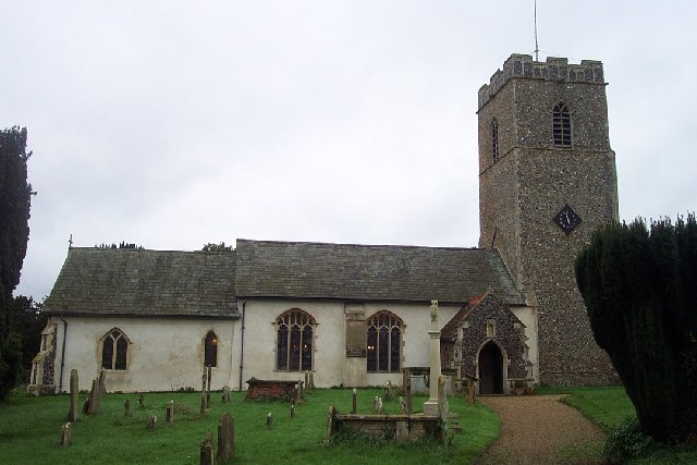 Church of All Saints in Great Glemham, Suffolk, England. A Grade I listed medieval church.